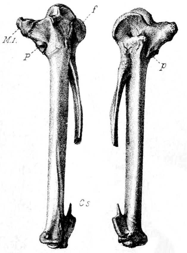 Mauritian Shelduck (Alopochen mauritianus) Depiction from: 'Edward Newton; Hans Gadow: On additional Bones of the Dodo and other Extinct Birds of Mauritius obtained by Mr. Théodore Sauzier. Transactions of the Zoological Society of London 13: 281-302. 1895'